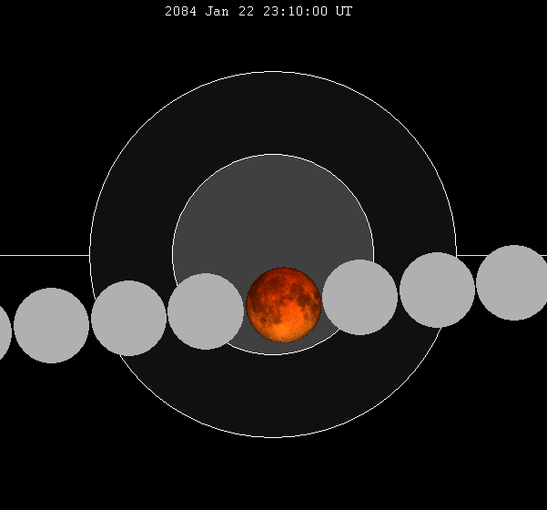 January 2084 lunar eclipse chart of moon's path through the earth's shadow. thumb